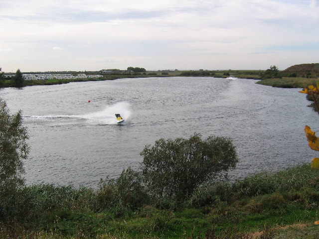 Water Sports centre in a former quarry near Brandesburton, East Riding of Yorkshire, England.Looking SW to the former gravel pit now a water sports centre.